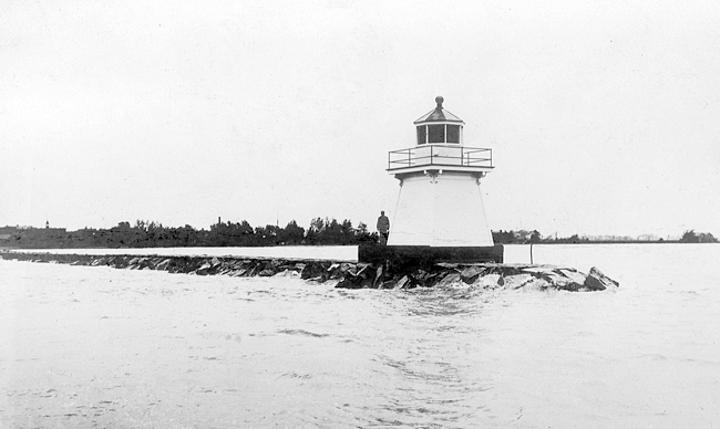 This is a picture of Port Clinton Light taken by the Coast Guard in 1904.